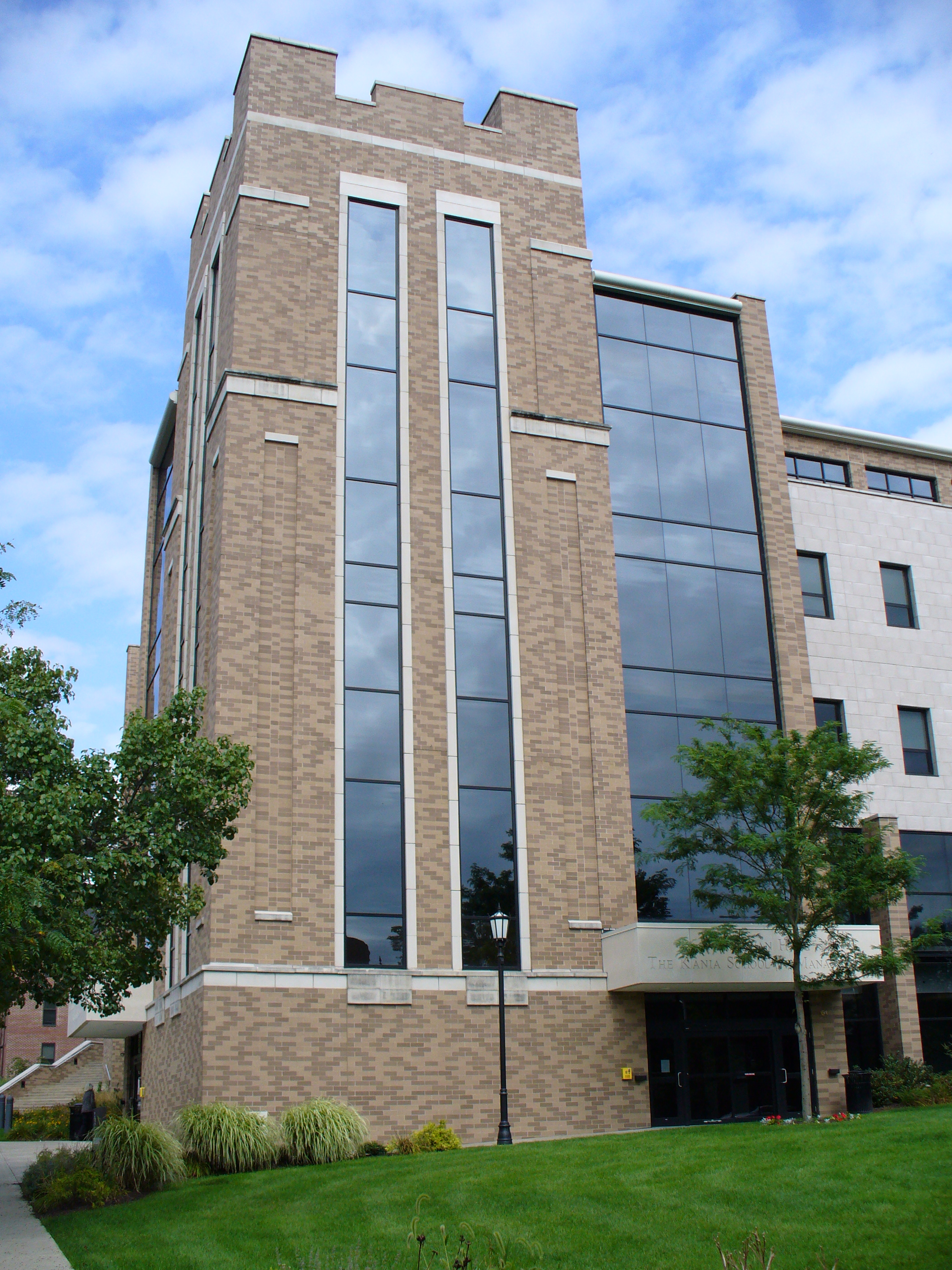 Brennan Hall, University of Scranton, at Scranton, Pennsylvania, United States.